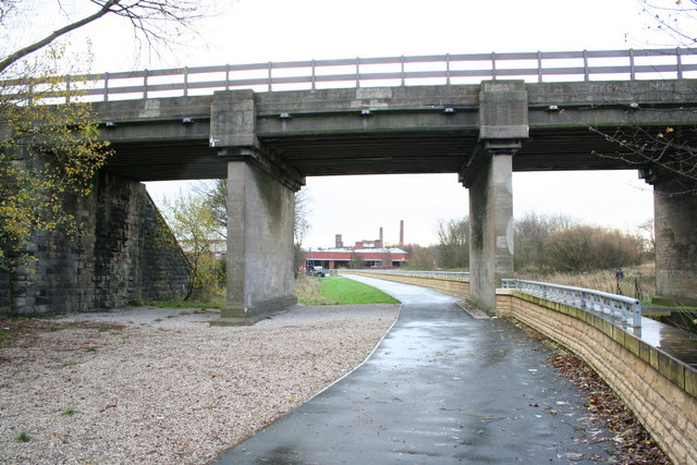 Adam Viaduct A new road is planned between Pottery Road and the Saddle Junction. The road will pass under these spans of Adam Viaduct. It will also cut right through the bus depot seen in the background.